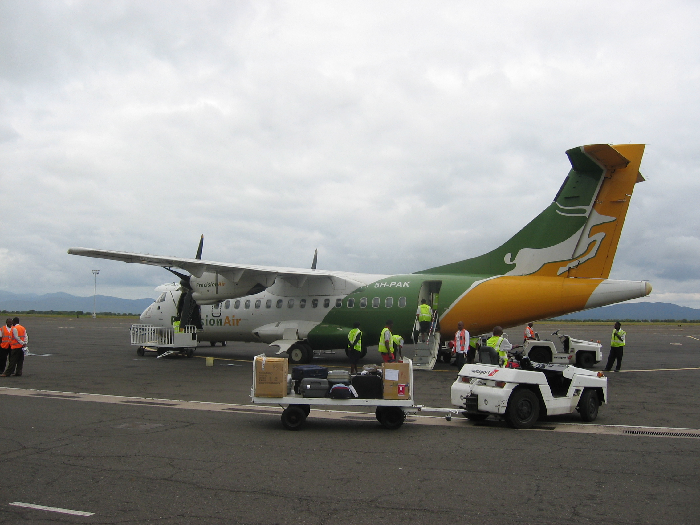 An ATR 42 aircraft of Precision Air at Kilimanjaro International Airport, Tanzania